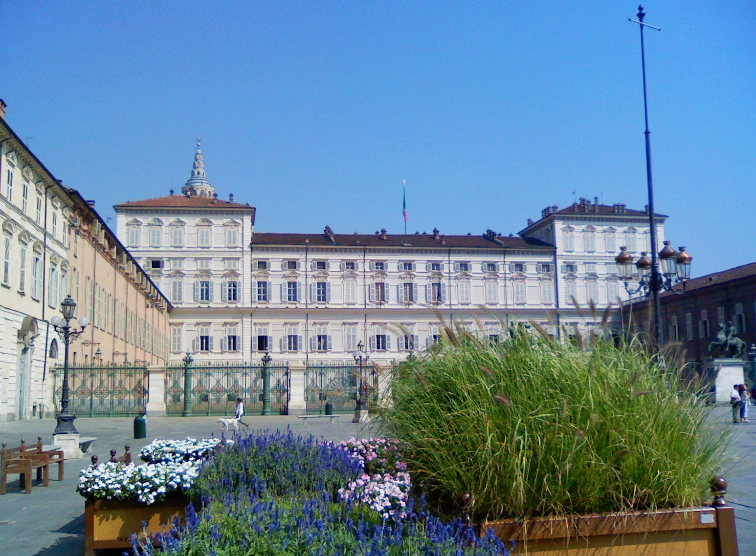 Torino - View of the Royal Palace from Piazza Castello.